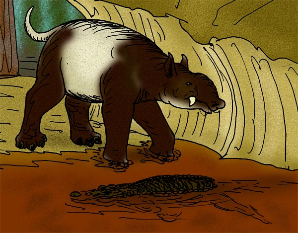 The astrapothere Trigonostylops wortmani entering the water, while the caiman Necrosuchus ionensis swims by, in Paleocene Argentina.